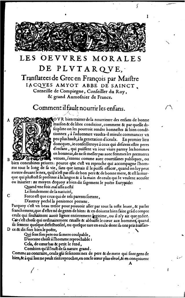 Plutarque traduit par Amyot